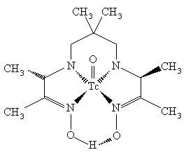 Organic complex of Technetium: 3,3,9,9-Tetramethyl-4,8-diazaundecane-2,10-dione dioximato-oxotechnetium(V) [TcO(pnao)] Schwochau, Klaus (2000) Technetium: chemistry and radiopharmaceutical applications, Wiley-VCH, p. 176 ISBN: 3527294961.